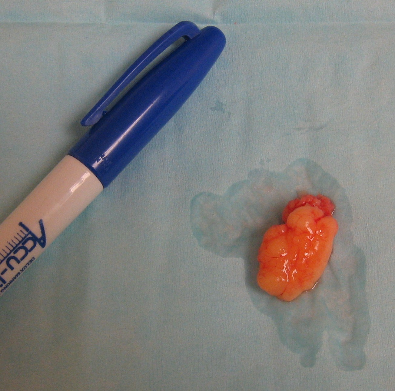 Lipoma removed from the flank of a human being.